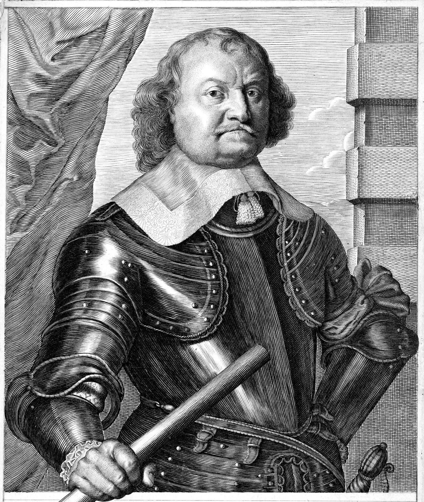 Lodewijk Hendrik van Nassau-Dillenburg engraving 1635 - 1702